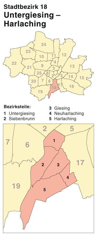 Boroughs of Munich map series